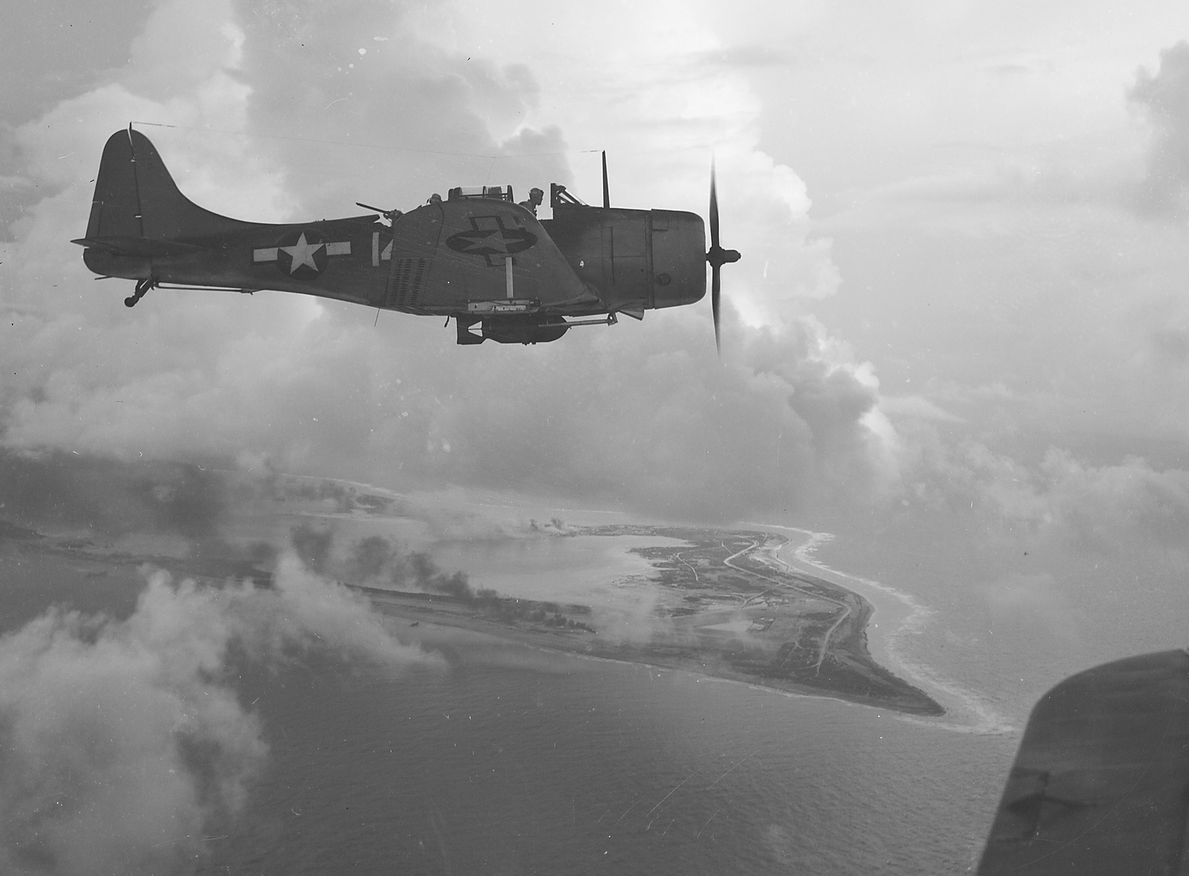 A U.S. Navy Douglas SBD-5 Dauntless dive bomber of Bombing Squadron 5 (VB-5) from the aircraft carrier USS Yorktown (CV-10) over Wake Island, 5 or 6 October 1943. Photographed by Lt. Charles Kerlee of the Naval Aviation Photographic Unit commanded by LCdr. Edward Steichen.